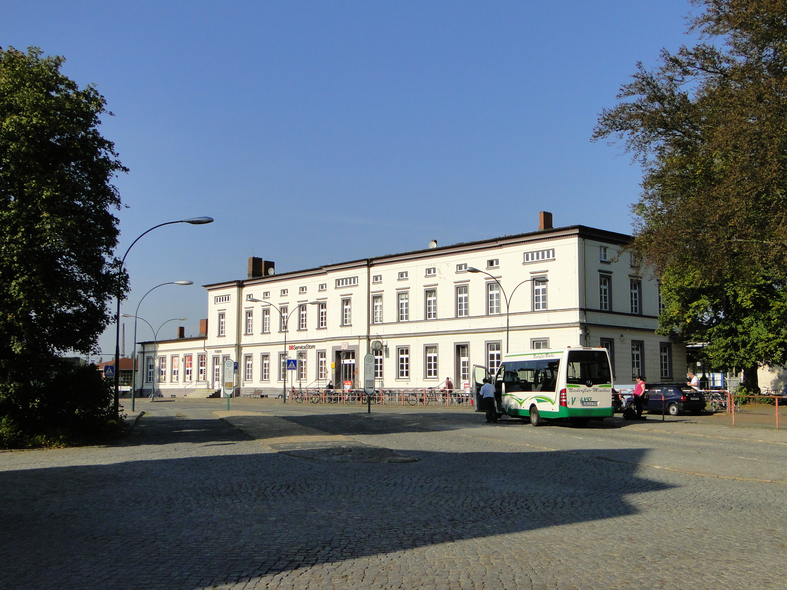 Train station in Ludwigslust, district Ludwigslust-Parchim, Mecklenburg-Vorpommern, Germany